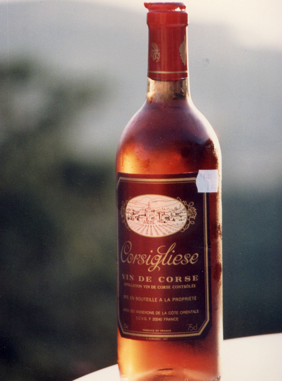 Bottle of wine from Corsica